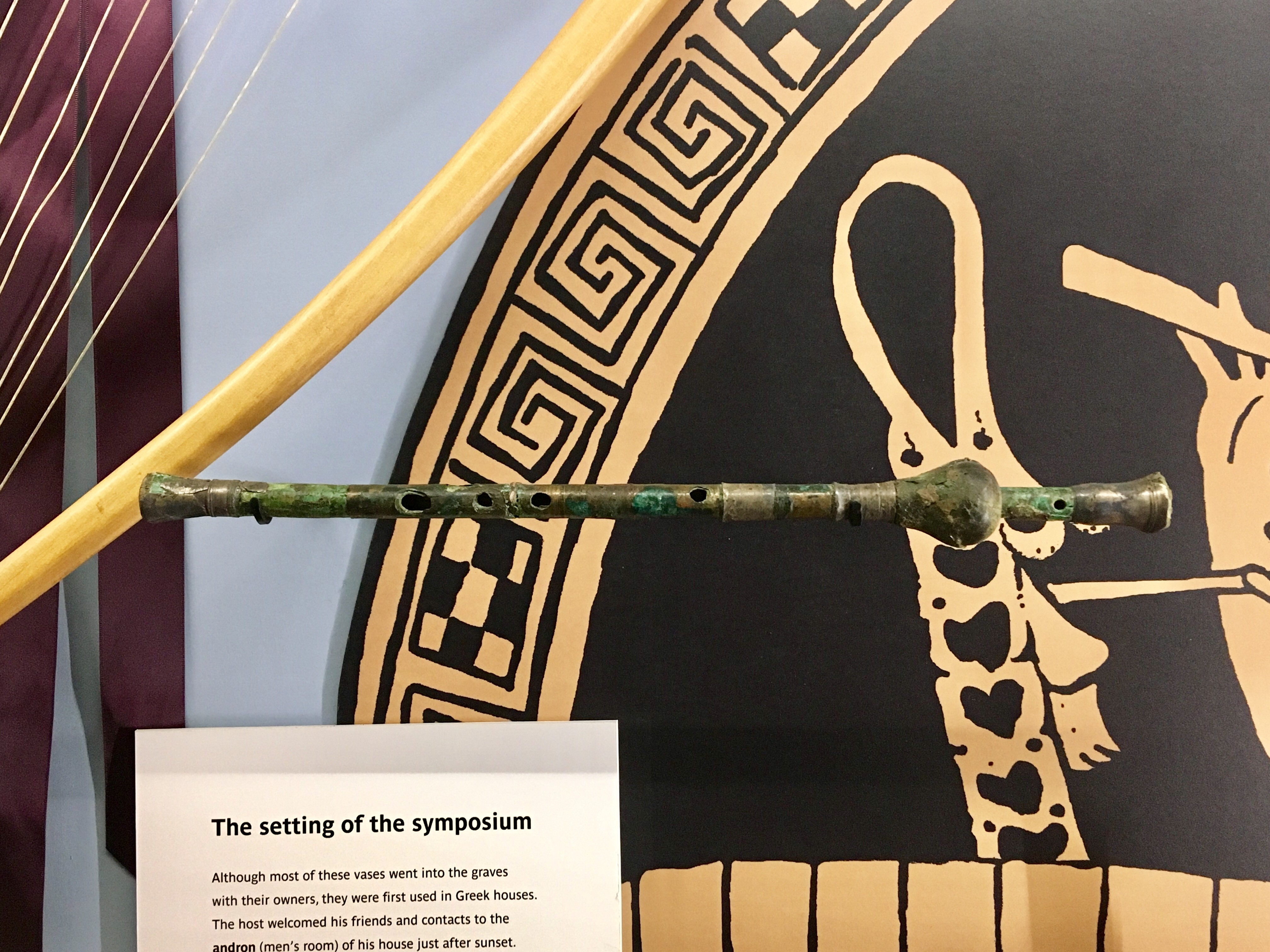 The Reading Aulos in situ in the 'Symposium' display at the Ure Museum of Greek Archaeology